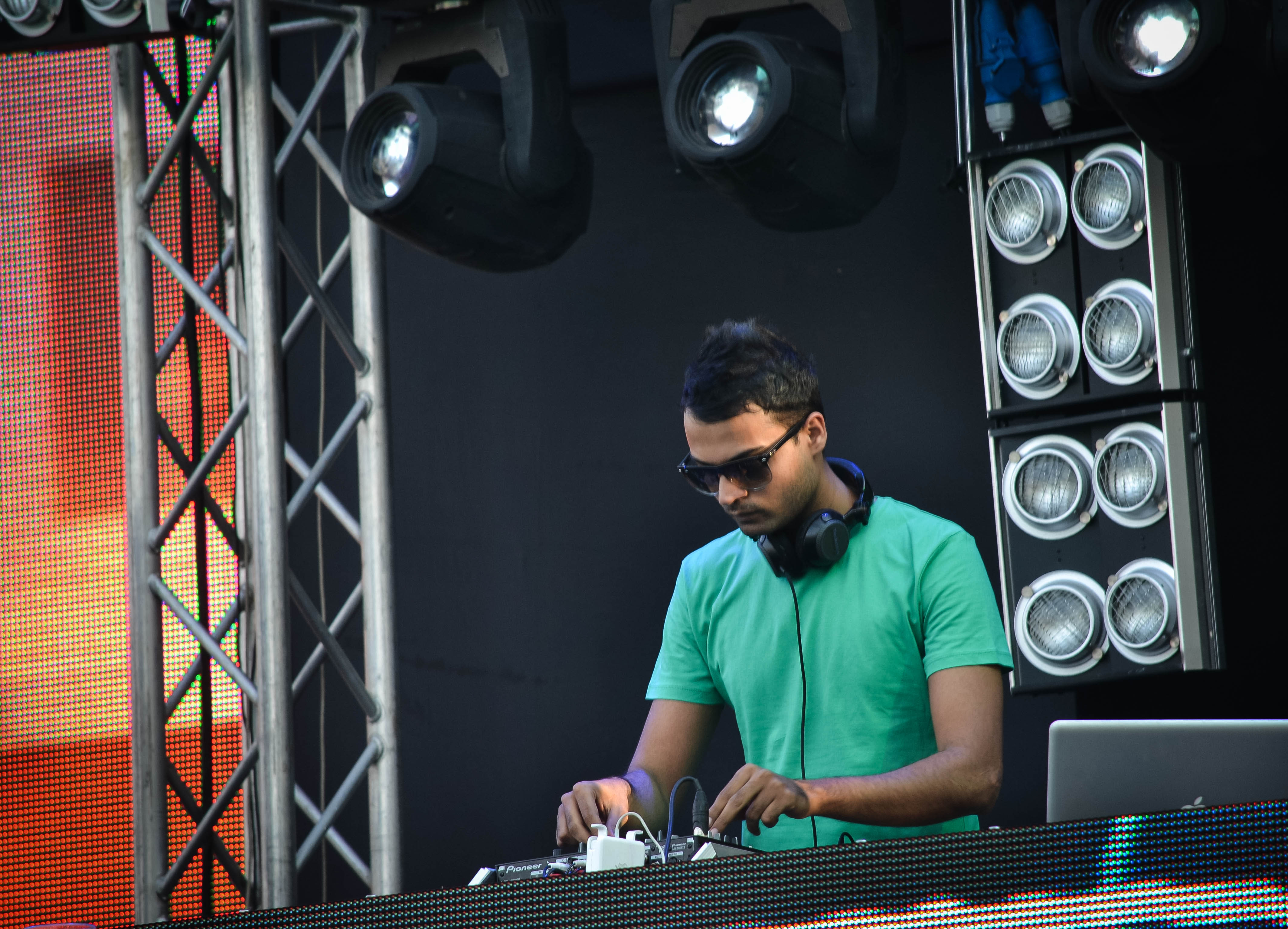 SEQU3L, Indian DJ and music producer, performs at the music festival in India